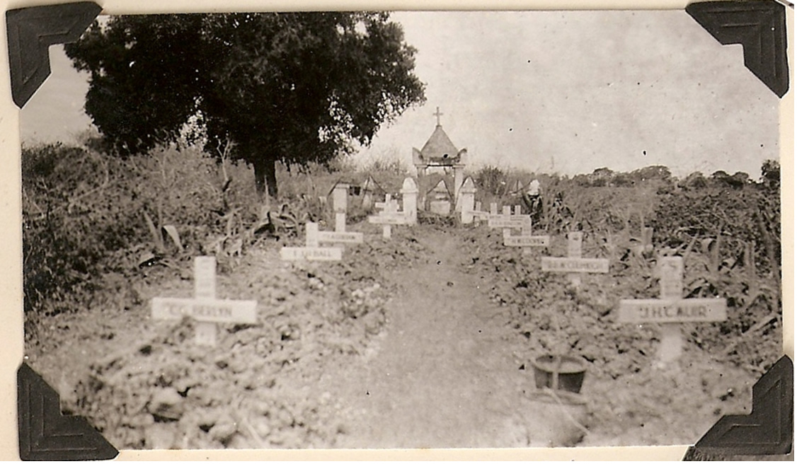 Graves of 12 Royal Natal Carabineers (S.A.) ambushed at Gelib, Somalia.